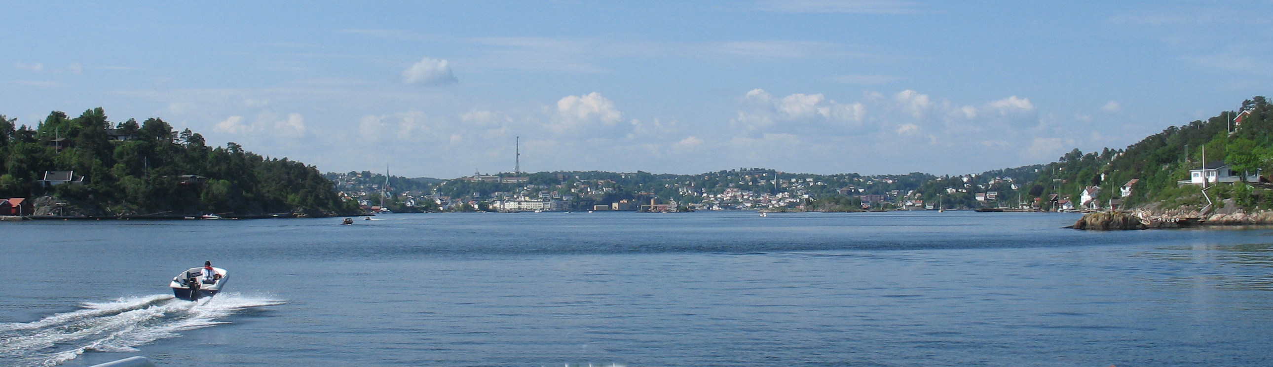 Arendal, seen from Galtesund.